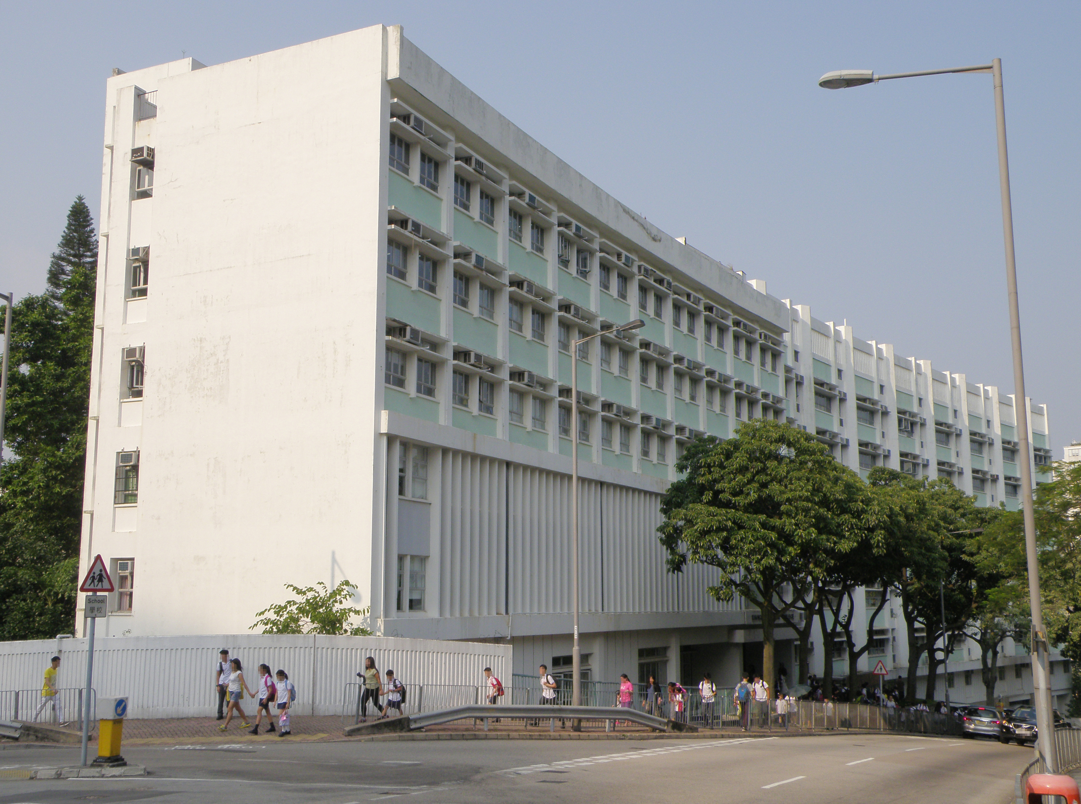 Kiangsu-Chekiang College in Braemar Hill, Hong Kong.